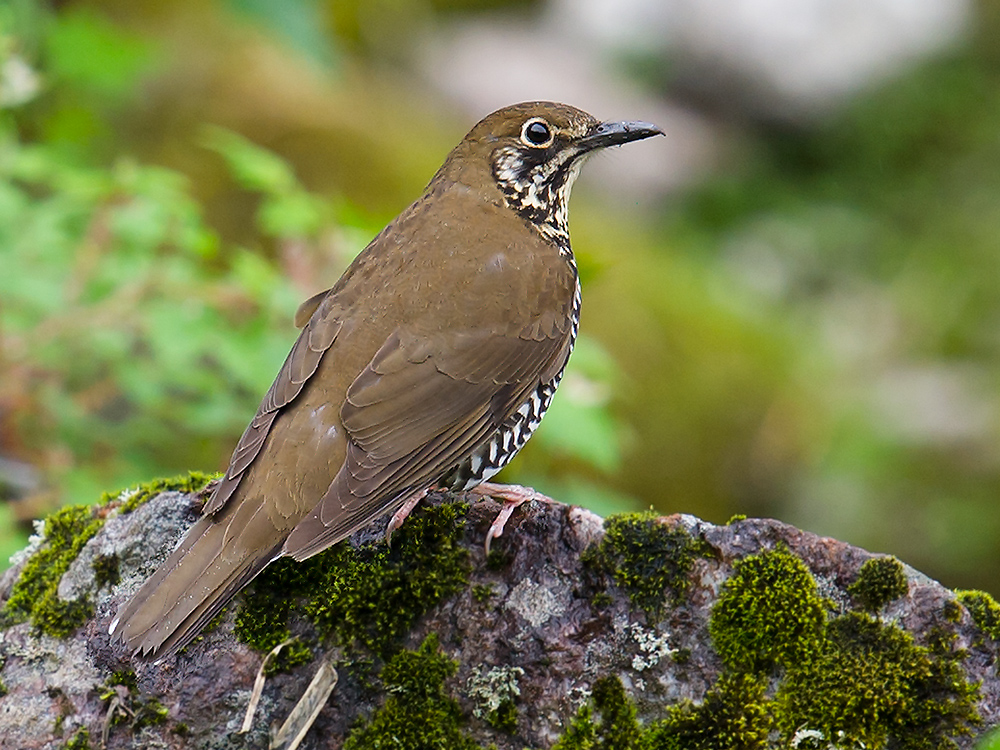 Himalayan Forest Thrush Zoothera salimalii, Dulongjiang, Yunnan, China.